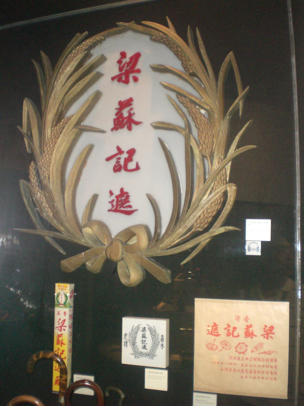 香港歷史博物館, Hong Kong Museum of History, 梁蘇記